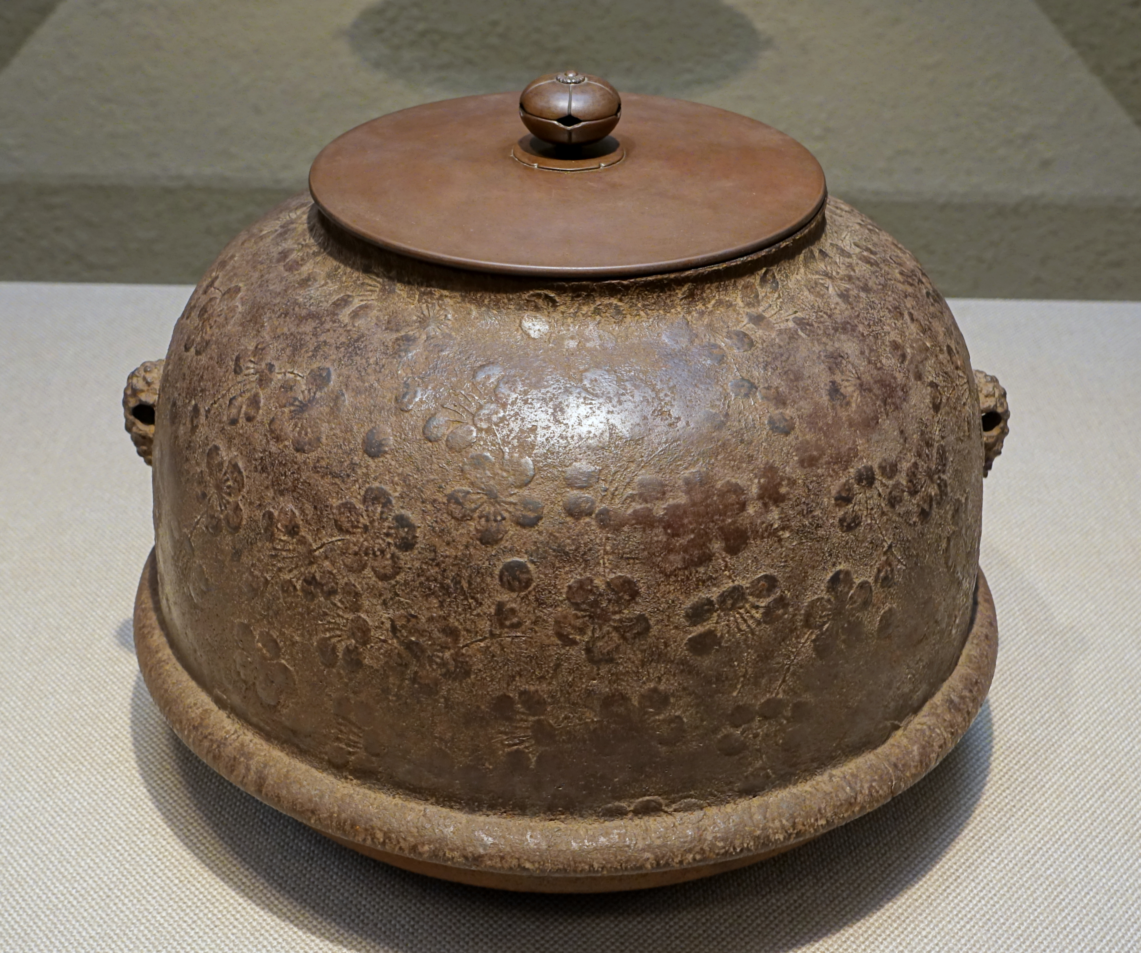 Exhibit in the Tokyo National Museum - Tokyo, Japan.